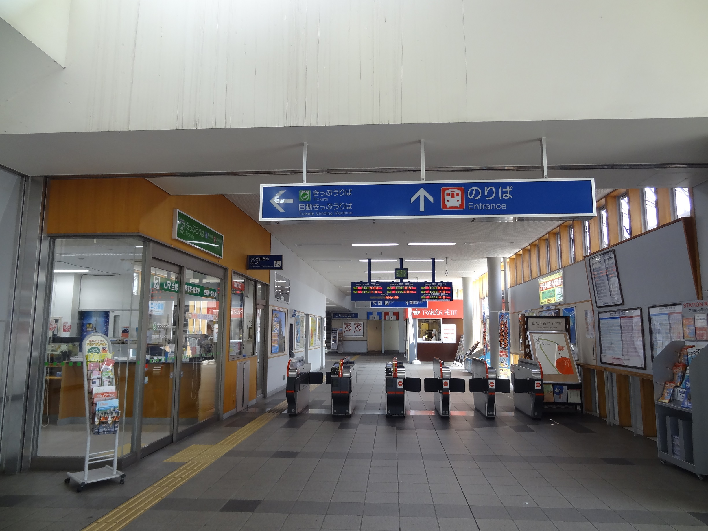 A gate of Nishikokura station(JR kyushu)